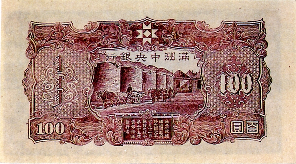 Manchukuo 100-yuan banknote, reverse side